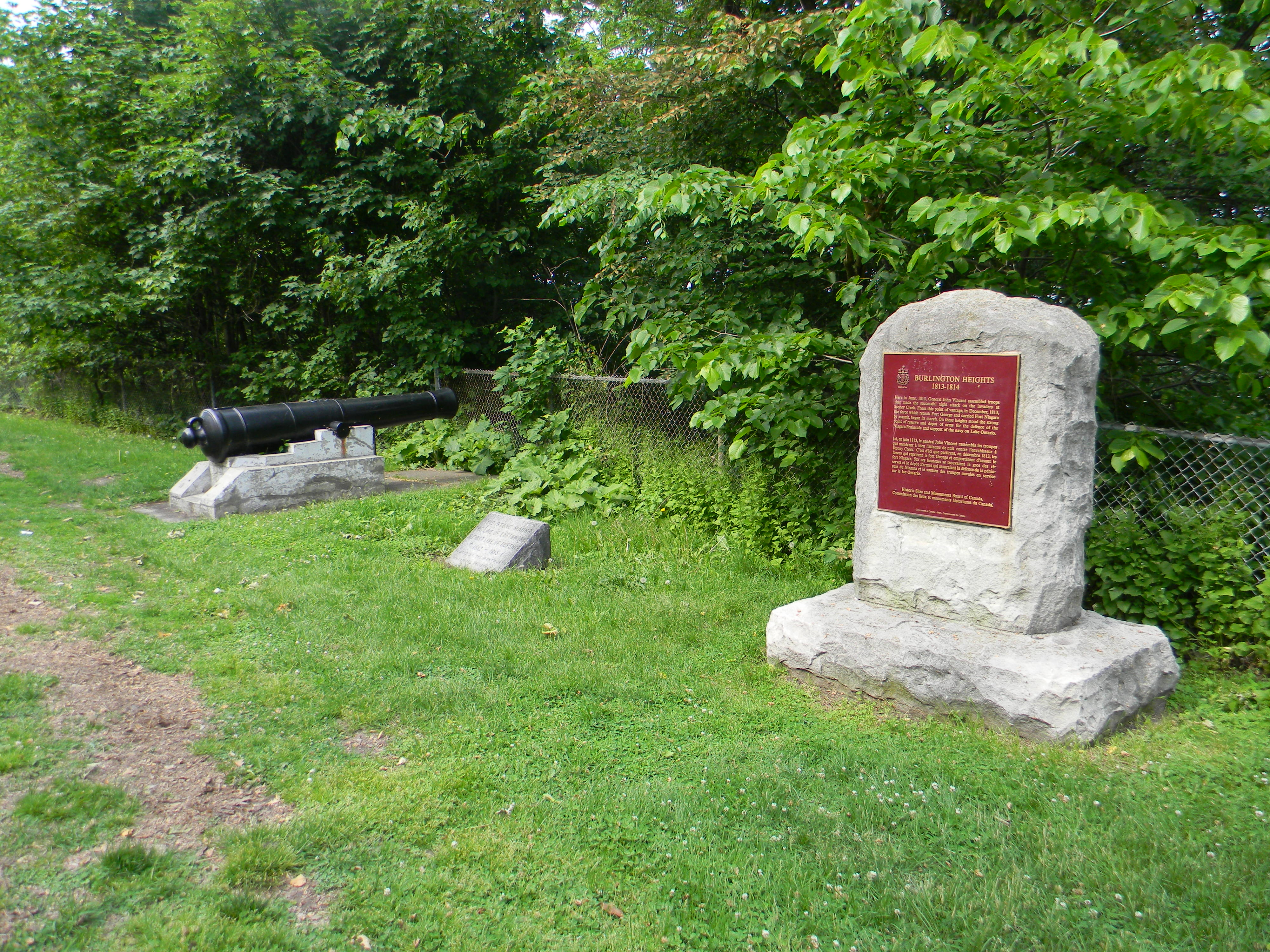 Plaques and Stone mark of First line of deffence position